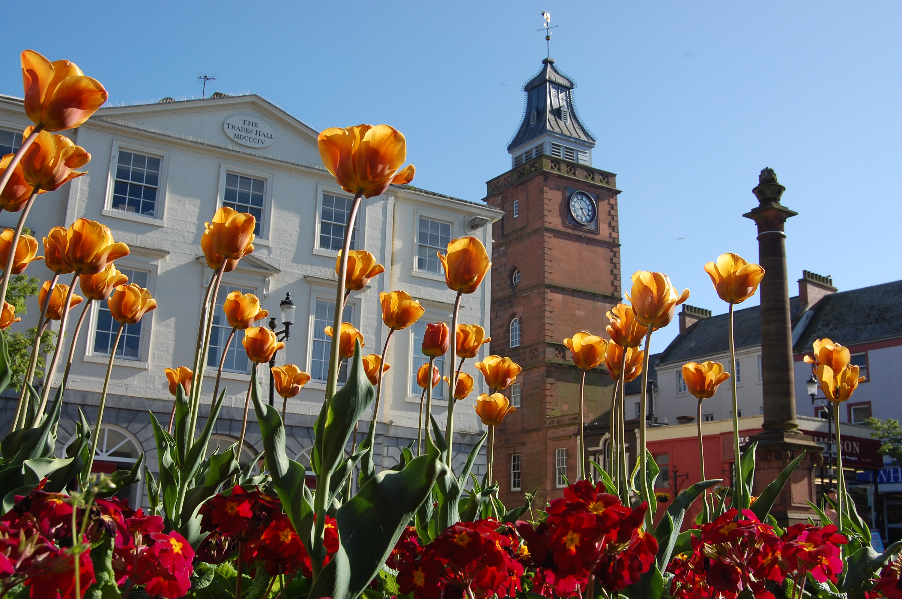 Flowers and buildings in Queensberry Square / High Street, Dumfries, 2011. The most prominent structures illustrated are the Trades Hall on the left, the Midsteeple (the tall building with the clock) and the Queensberry Monument (the structure with a tall thin column towards the right of the picture). Unaltered photo.